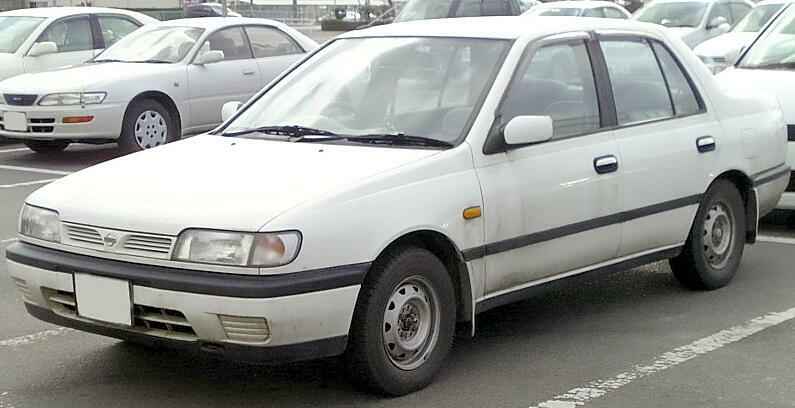 1991-1994 Nissan Pulsar (N14)